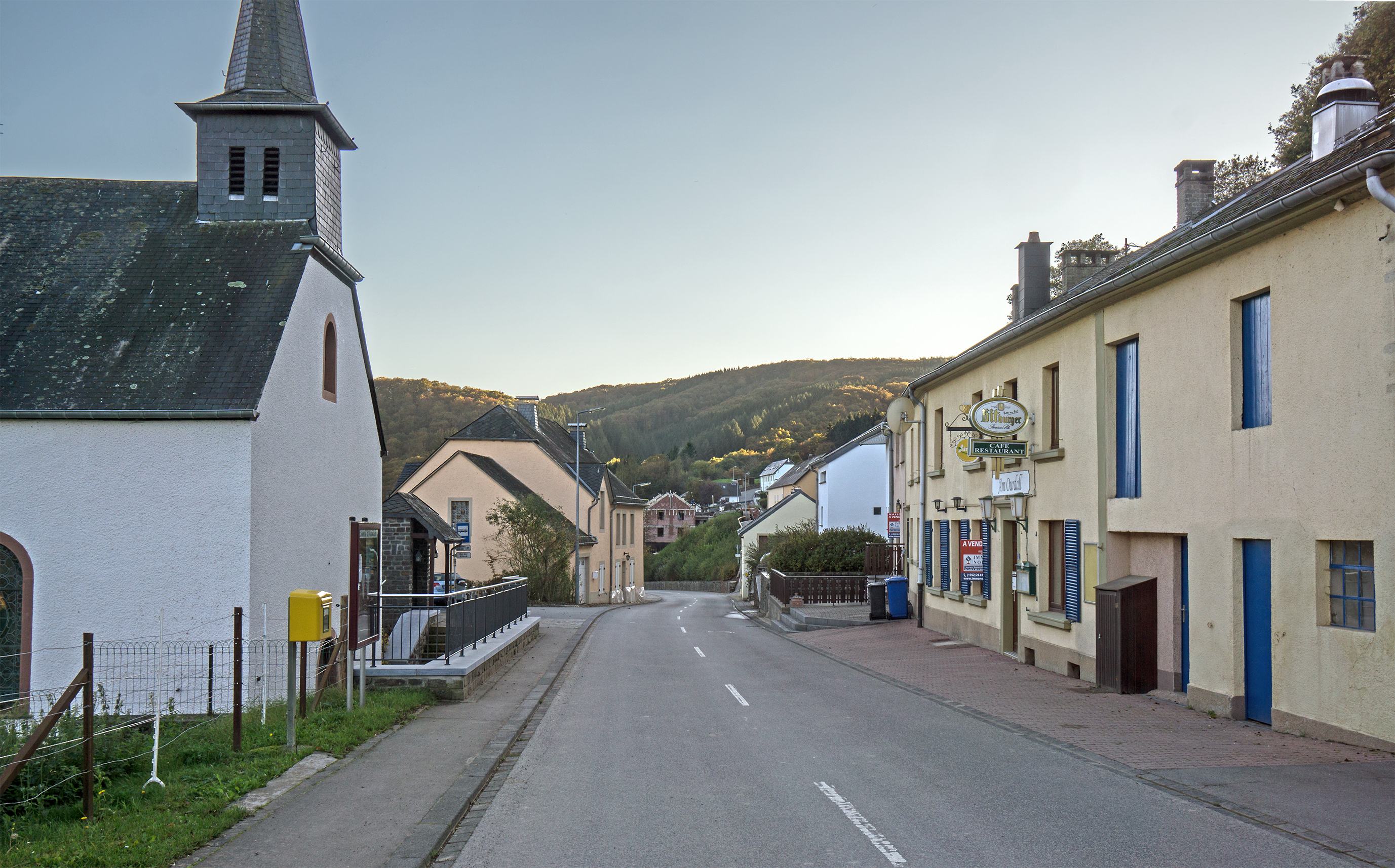 Main road in Rodershausen